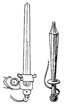 Weapons for tournament, tornament sword and tournament club